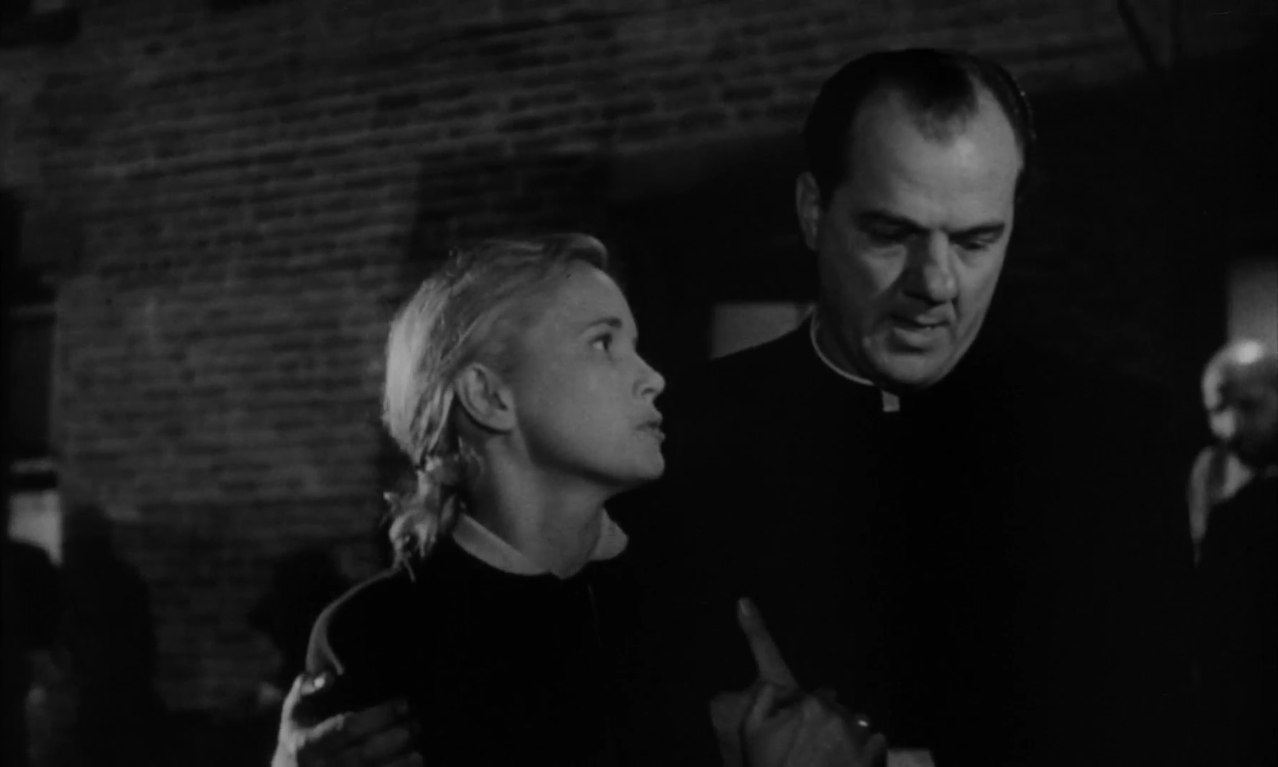 Eva Marie Saint and Karl Malden in a screenshot from the trailer for the film On the Waterfront.